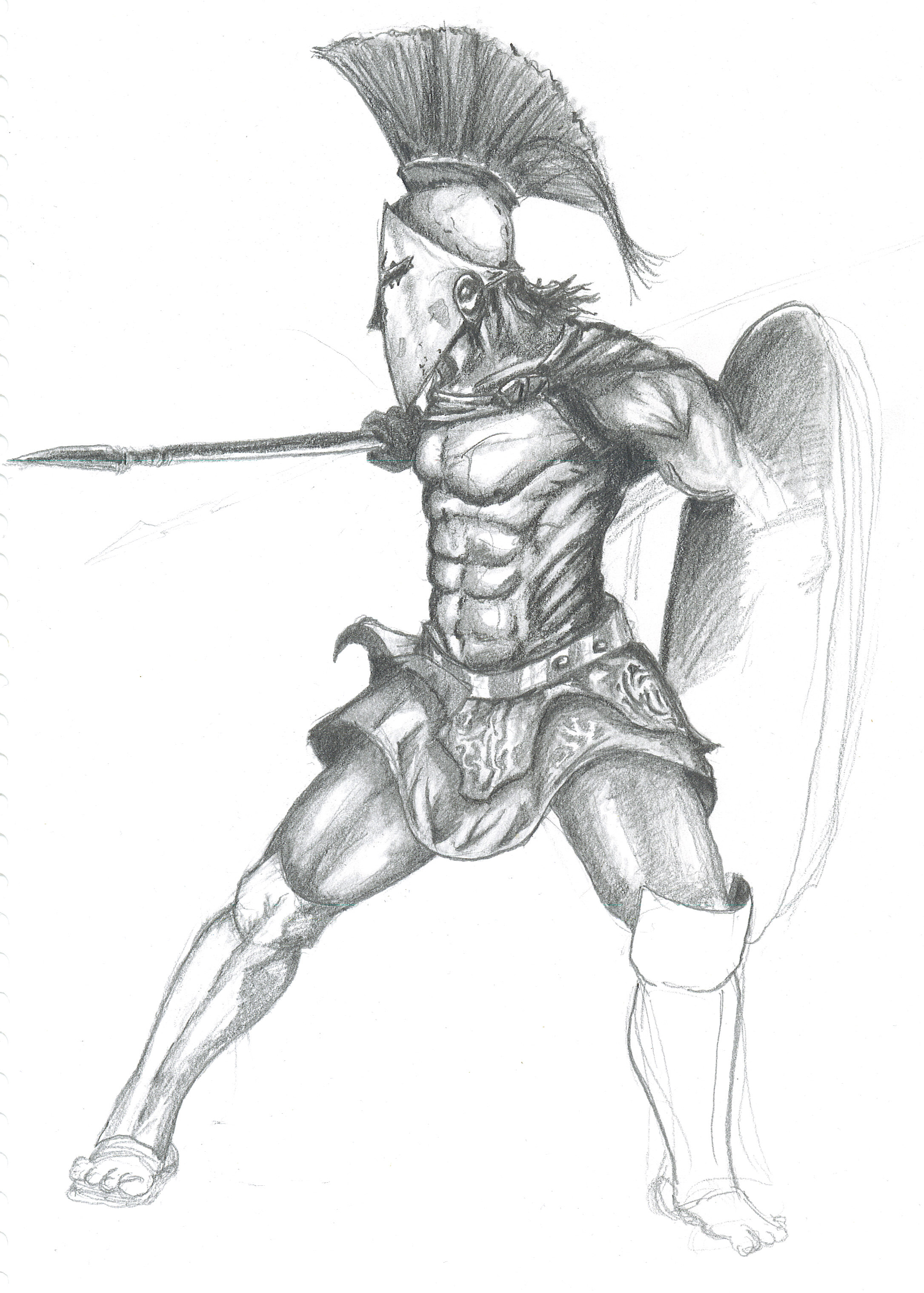 An image drawn in pencil of a Spartan Warrior